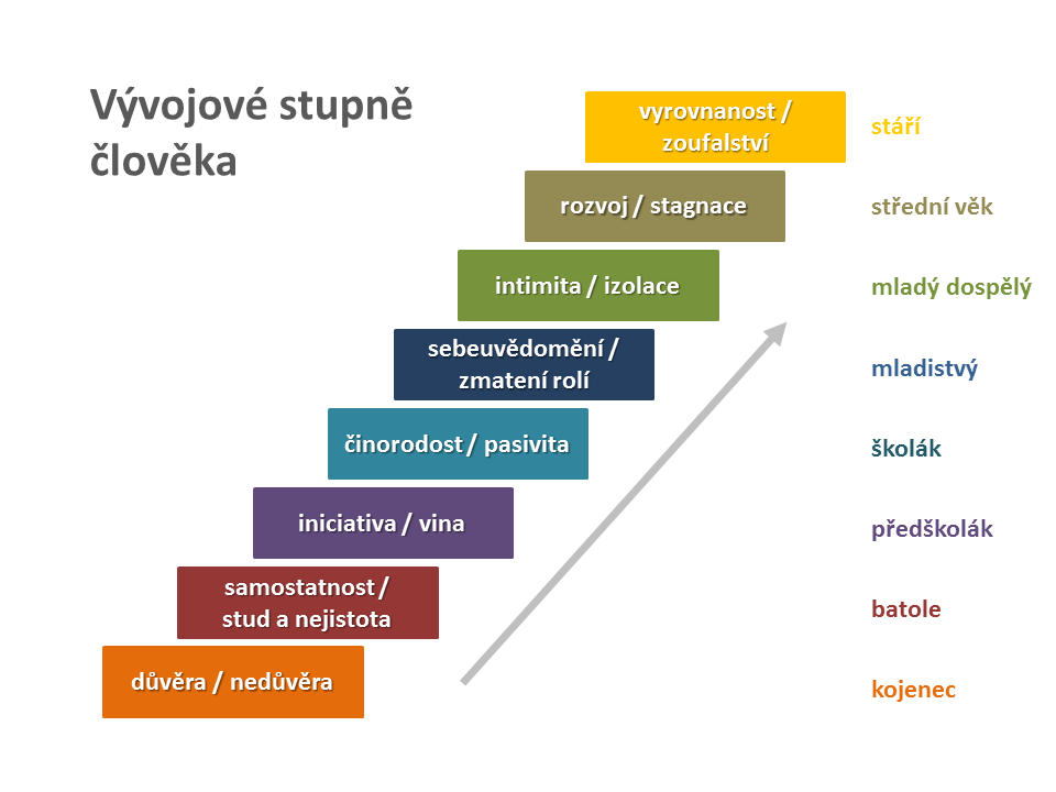 Erikson's stages of psychosocial development